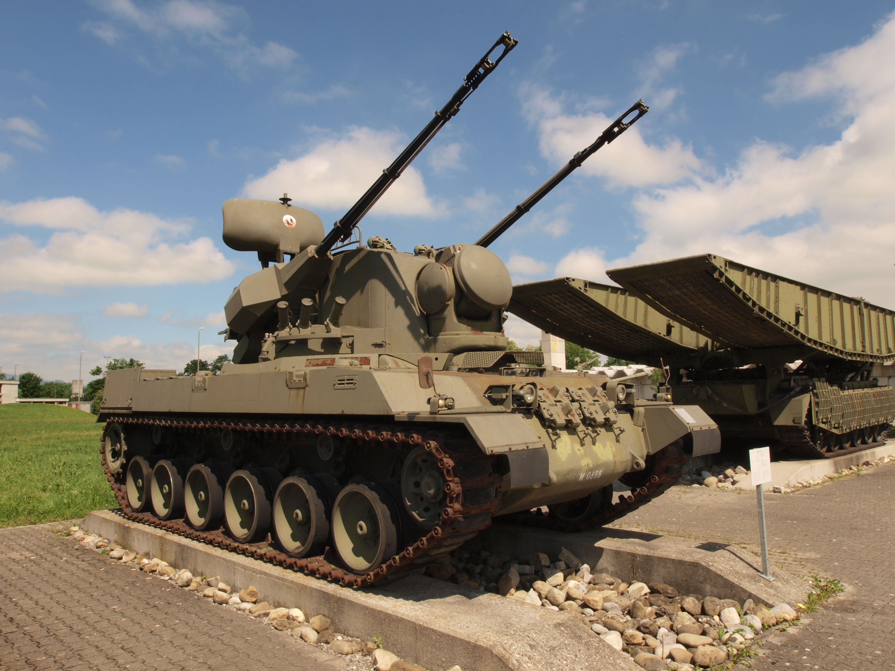 Photographed at the army base Thun, Switserland.